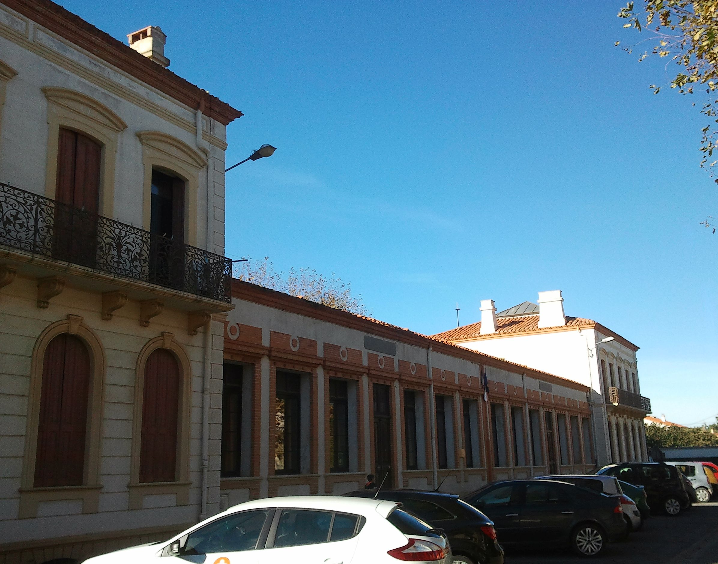 The schools in Pézilla-la-Rivière